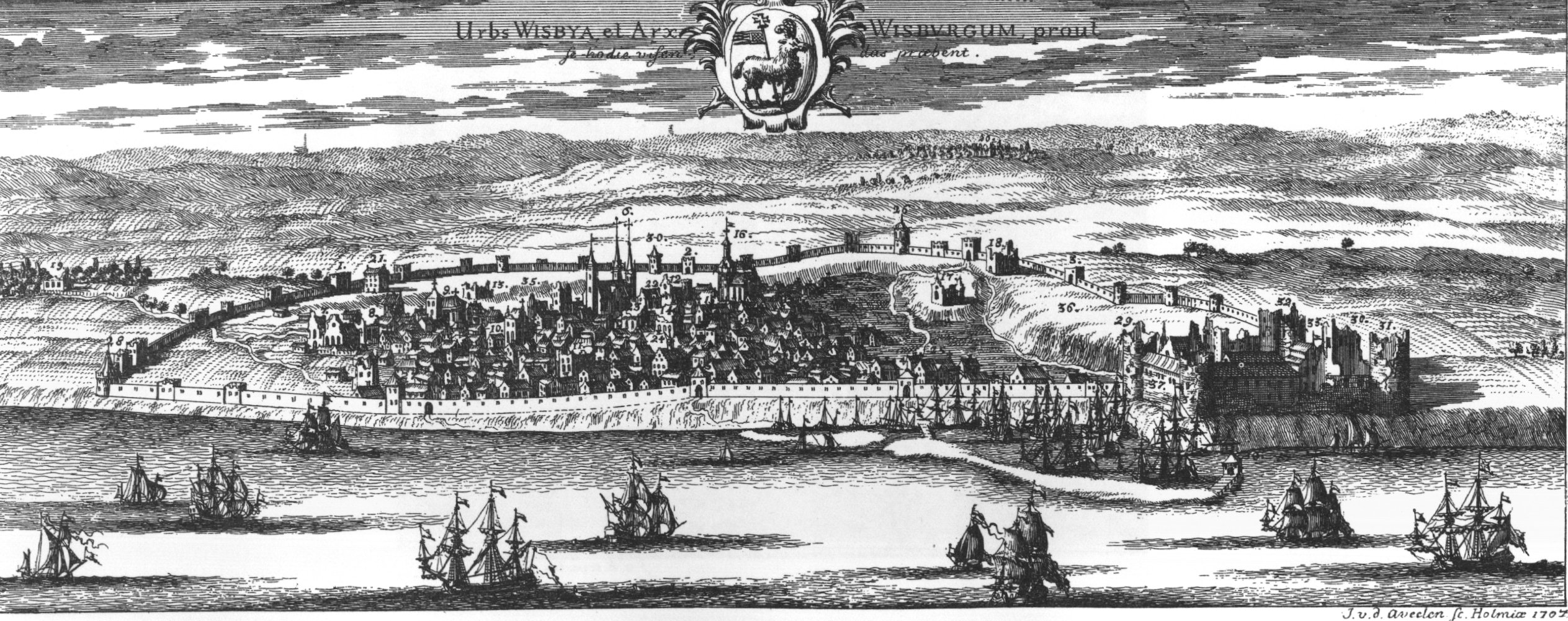 Visby on Gotland in Sweden Ichonographica Delineatio pervetustae Anseanticae Urbis Wisbyae in Gothlandia, qvalem se hodie visentibus exhibet = Urbs Wisbya et Arx Wisbvrgum, prout se hodie visen das precebent